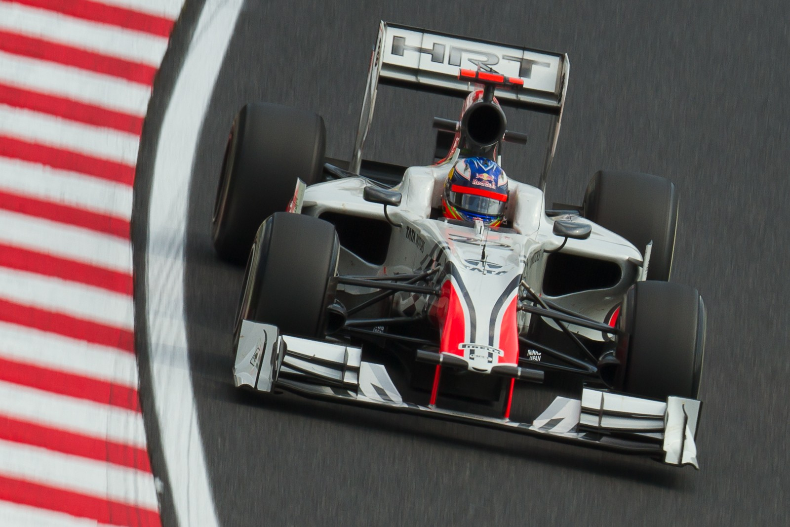 Formula One 2011 Rd.15 Japanese GP: Daniel Ricciardo (HRT) during race.